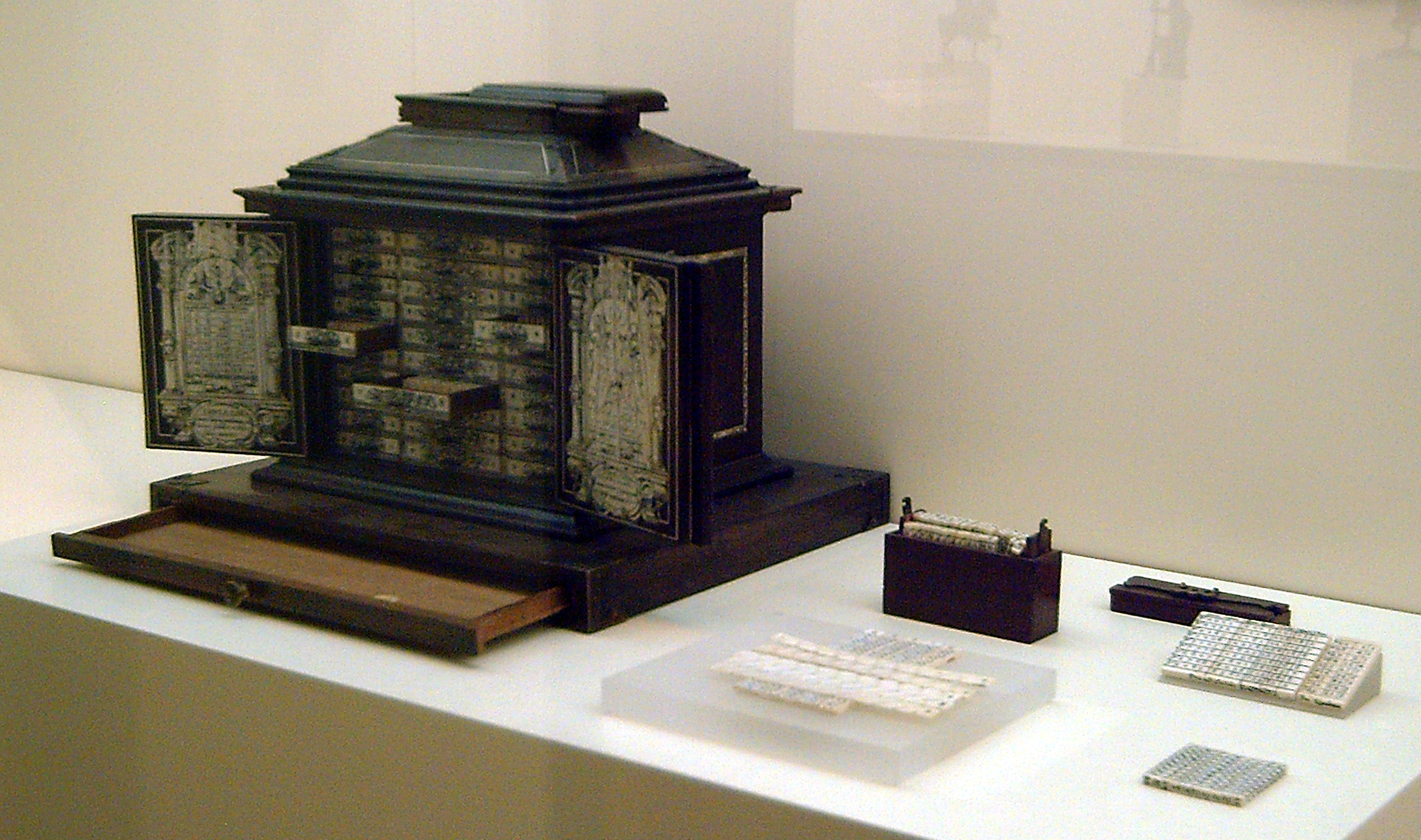 Two Napier's abacuses and the box to keep them. They are based on models designed by Scottish mathematician John Napier (1550-1617): the so-called "Napier's bones" and a more complex one named Promptuary.